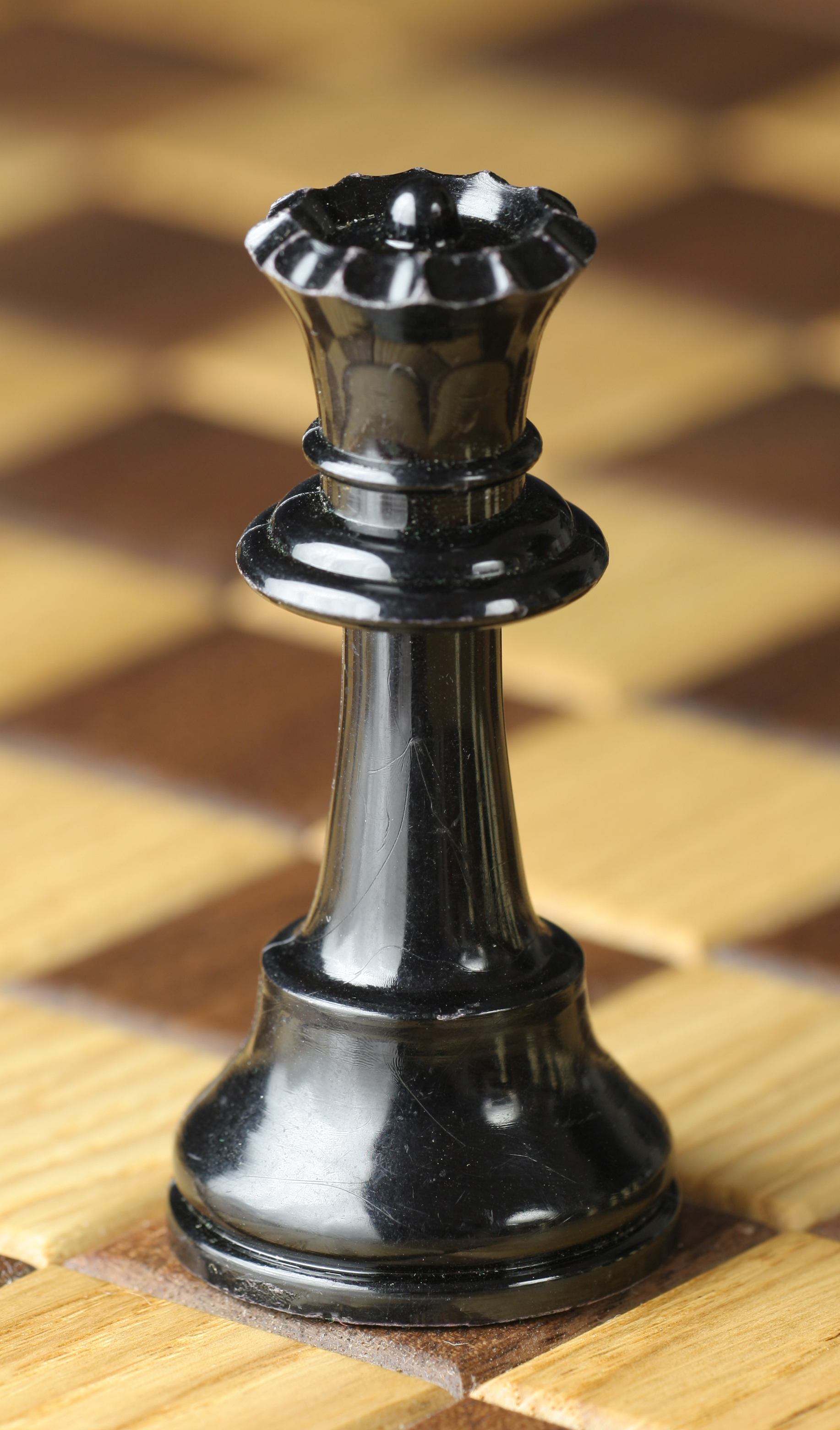 Chess piece - Black queen, Staunton design